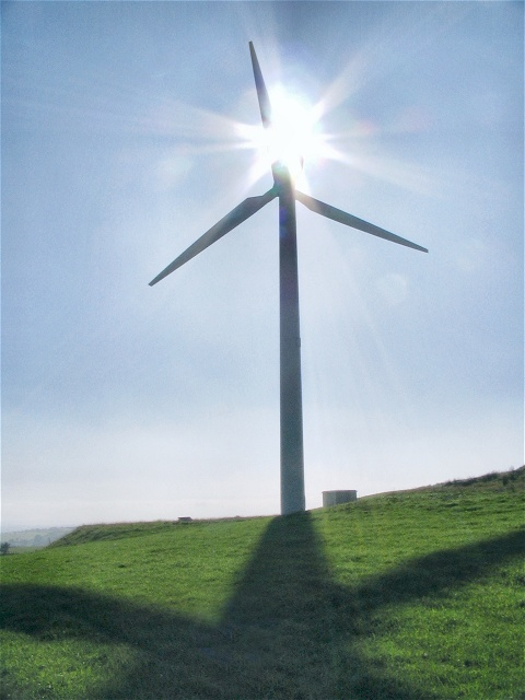 Wind Turbine #17 This is one of 20 turbines up on these hills. Although ugly from a distance they are quite majestic up close. Curiously it's not the motion of the blades themselves that make you want to duck - but the shadows they cast which shoot across the ground you're standing on.